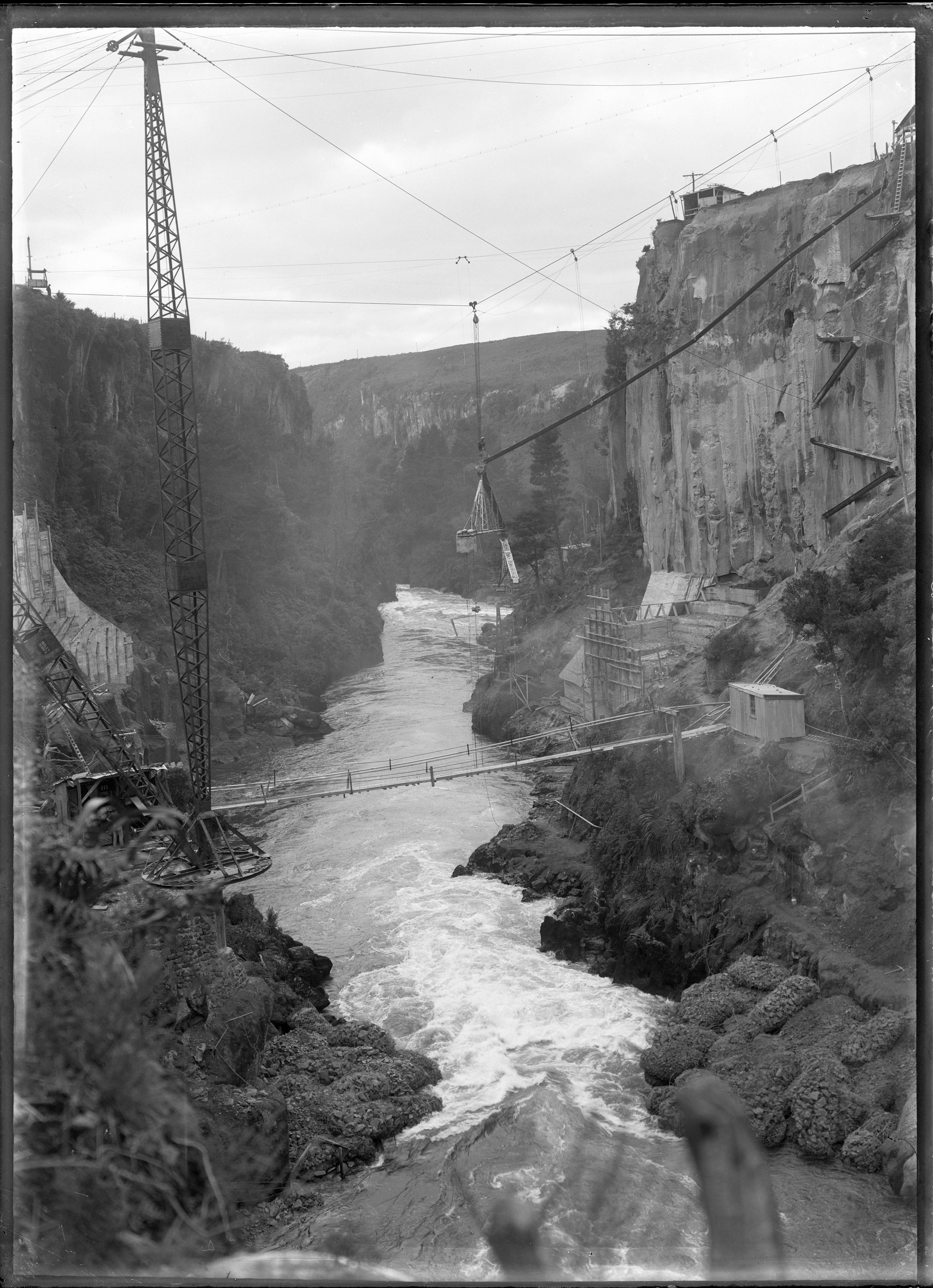 Arapuni gorge during the implementation of the Arapuni hydro-electric power scheme, ca 1929 Reference Number: 1/2-100691-G Photographer: William Hall Raine Glass negative Photographic Archive, Alexander Turnbull Library Find out more about this image on our Manuscripts + Pictorial website